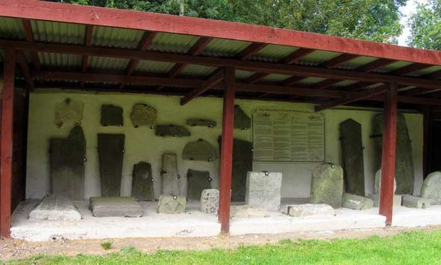 St Teilo, Merthyr Mawr, Glamorgan, Wales Celtic stones.